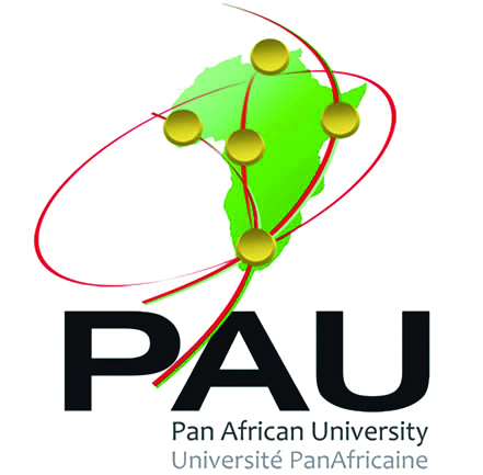 Pan African University